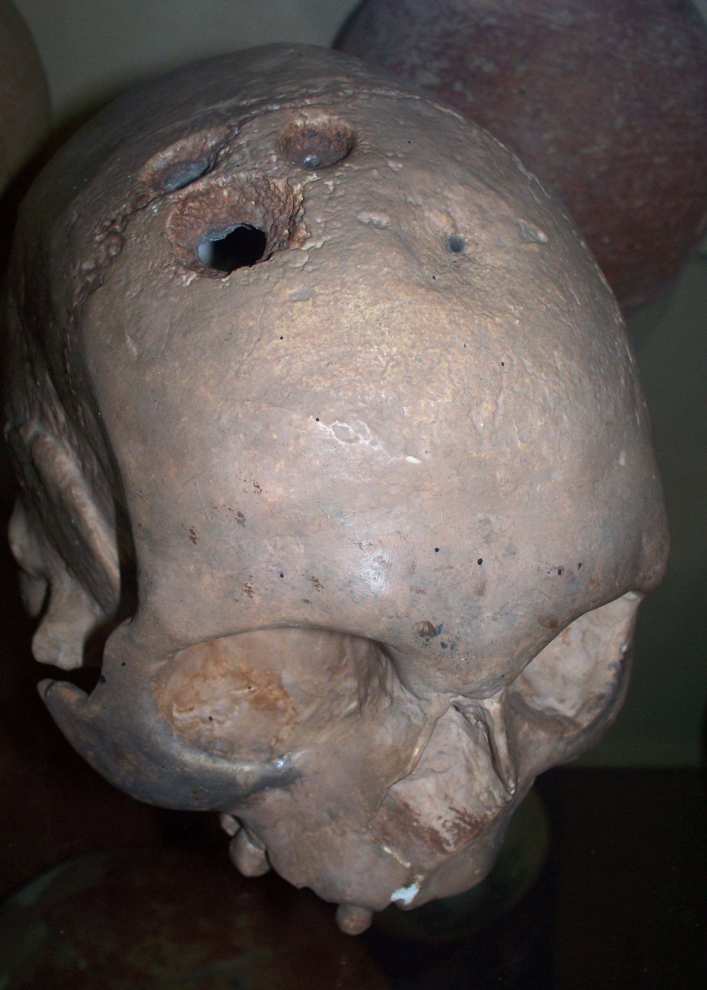 This skull - exhibited in the Jordan Archaeological Museum - shows evidence of trephining, an ancient surgical practice involving boring holes in the human skull. This individual survived the first one, as indicated by the almost complete healing of one hole near the front center of the skull. The latter three operations were apparently less successful and he died shortly afterwards. The skull was found near Jericho and is dated in the early Bronze Age.